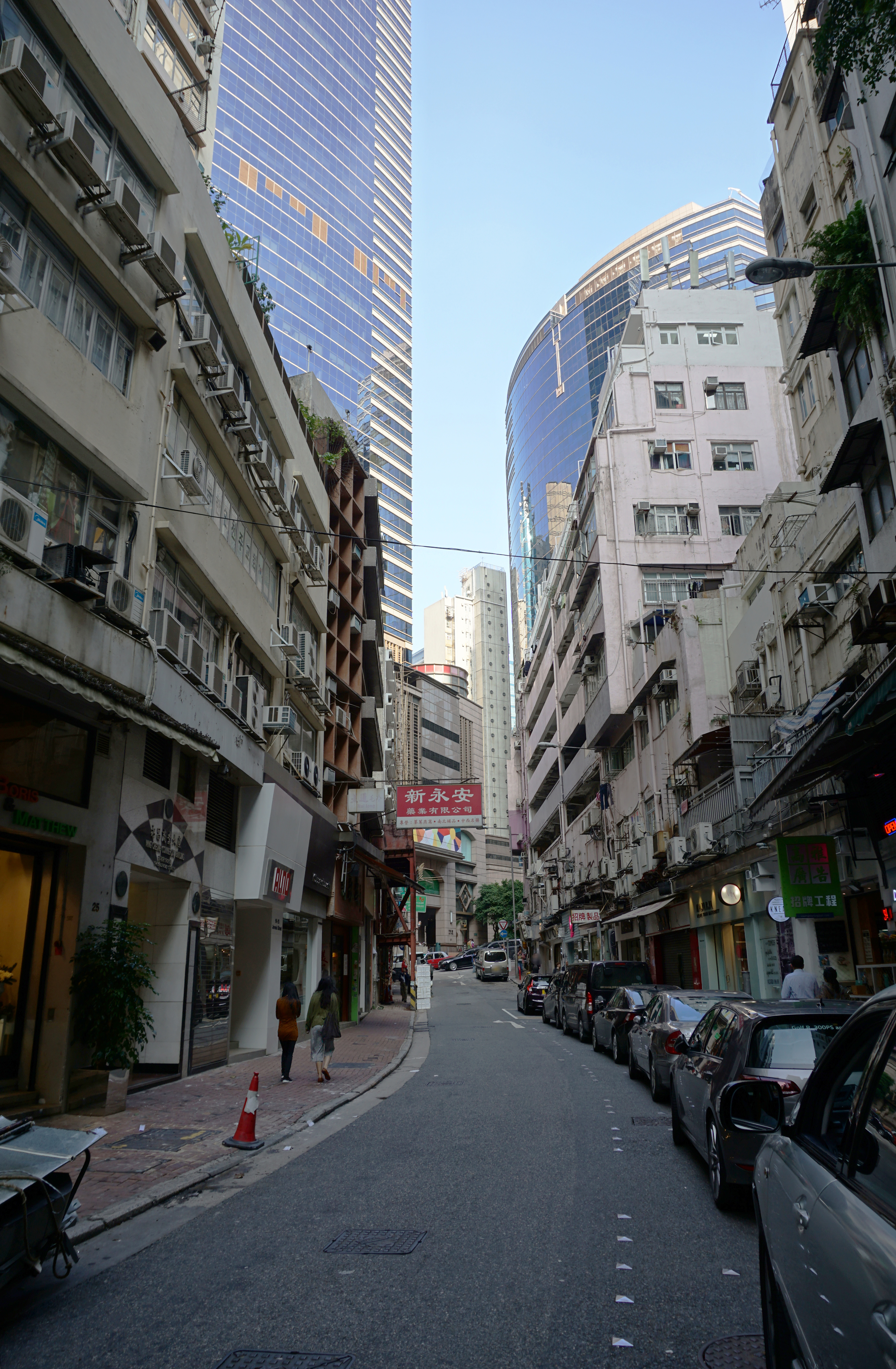 Jervois Street in Sheung Wan, Hong Kong.